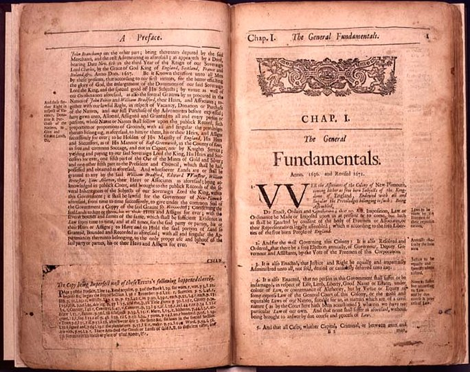 Description: The Book of the General Laws of the Inhabitants of the Jurisdiction of New-Plimouth. Boston: Samuel Green, 1685. Source: American Treasures of the Library of Congress, Law Library